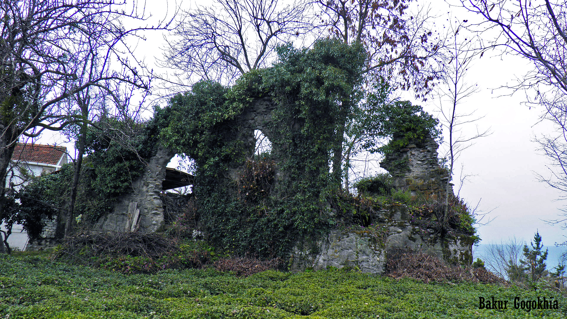 Ruins of Georgian orthodox church in Ardeşen, Rize province/Lazistan, Turkey; Batumi and Lazeti Eparchy of GEOCh